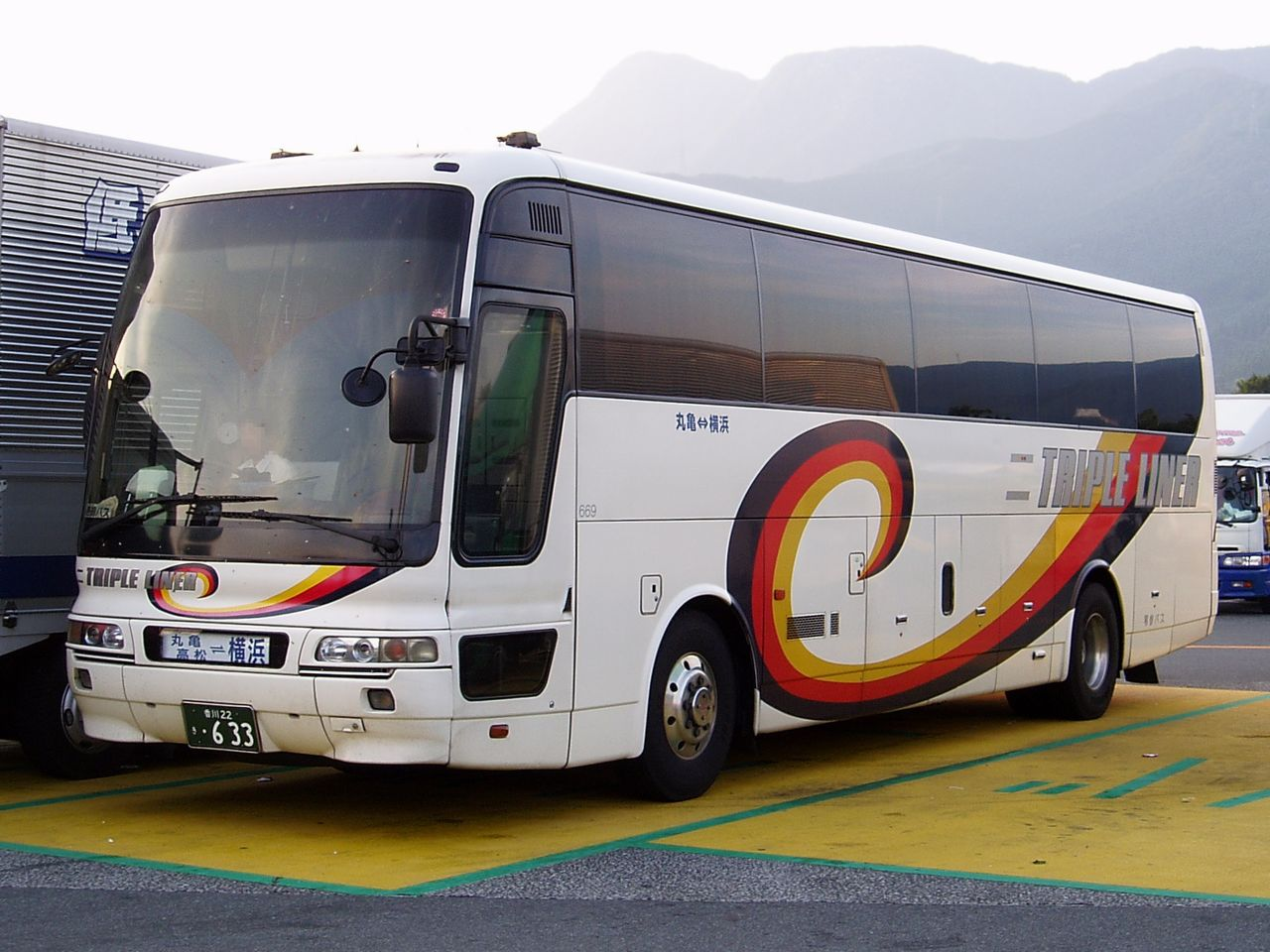 Kotosan Bus 669 "Sanuki Express" Mitsubishi KC-MS822P at Ashigara Service Area